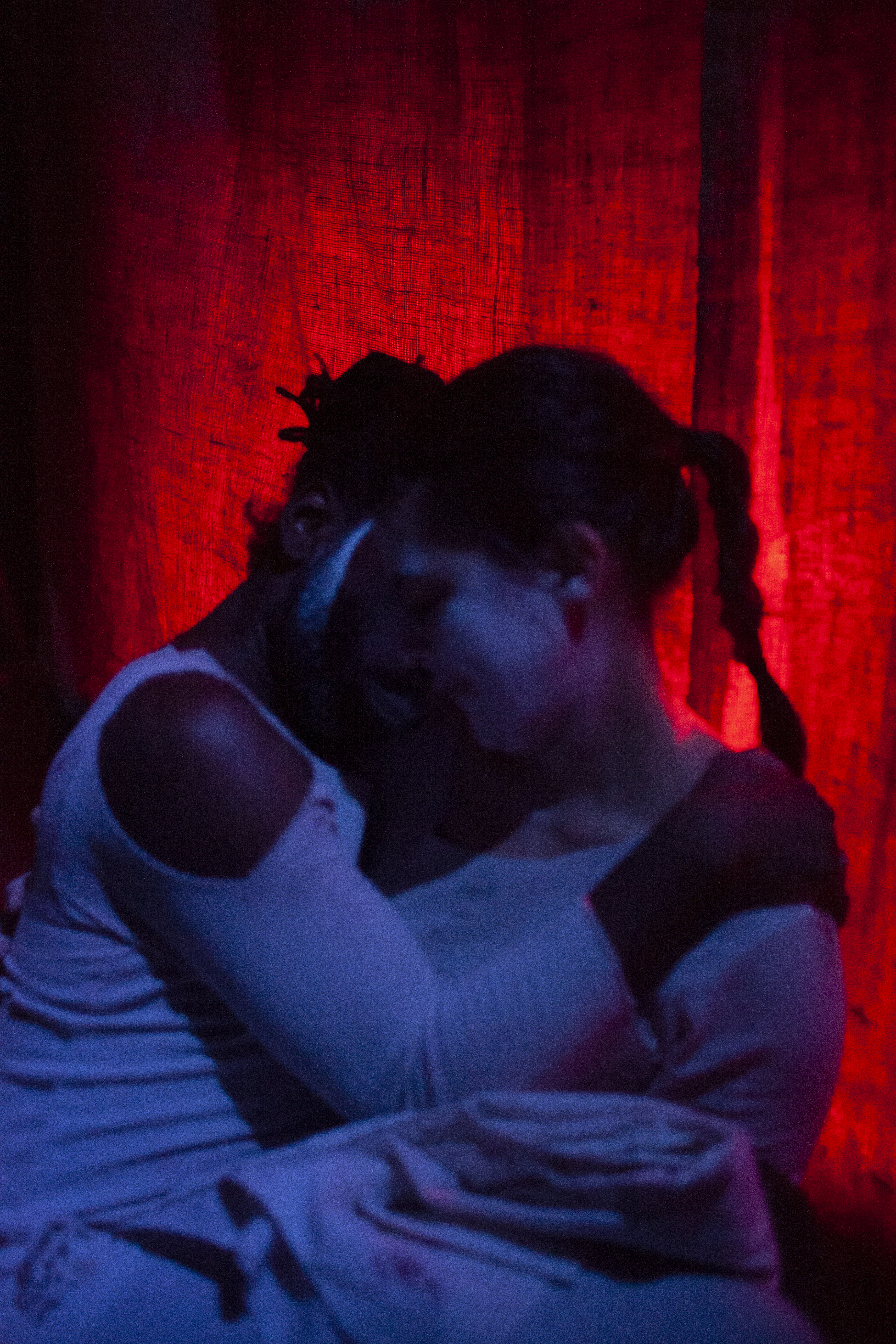 produced by Stairwell Theater, presented at - h0l0, Brooklyn